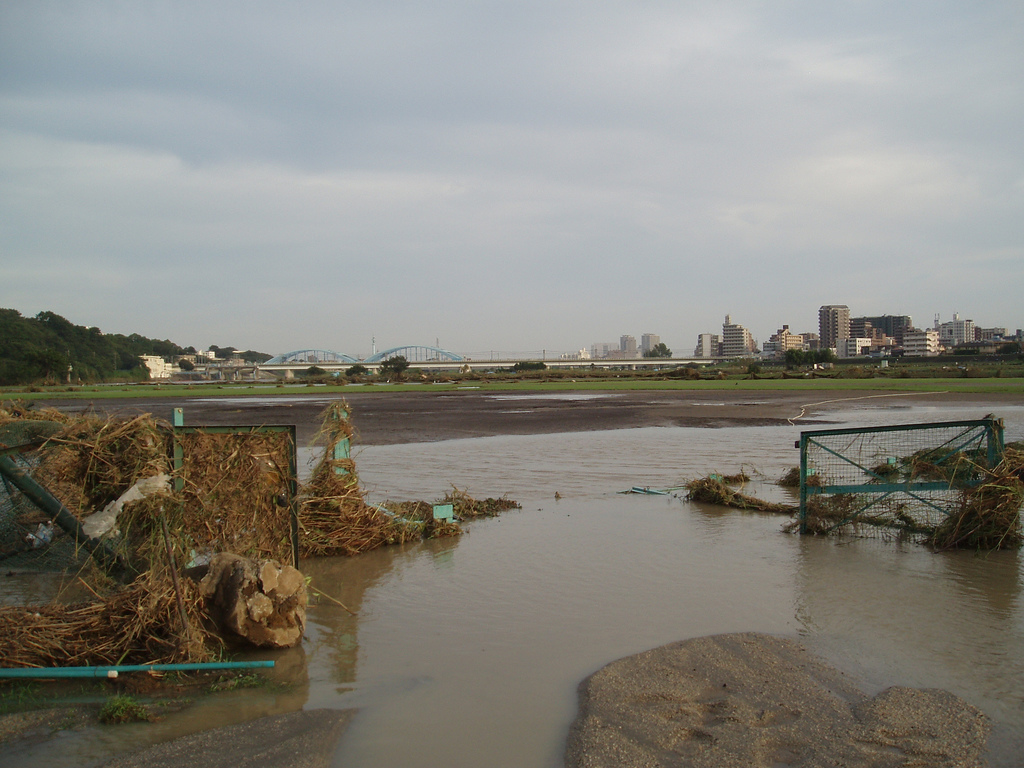 Of all the damage in the Tama River flood plain, the baseball diamonds are likely the worst. The dugouts, the benches, the fences are all twisted, overturned, coated with mud and woven with dead plant matter.